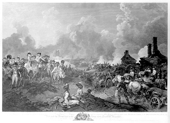 The Grand Attack on Valenciennes by the Combined Armies under the Command of His Royal Highness the Duke of York, 25 July 1793